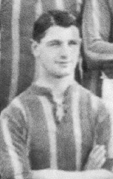 Jack Chapman while with Brentford FC 1913/14